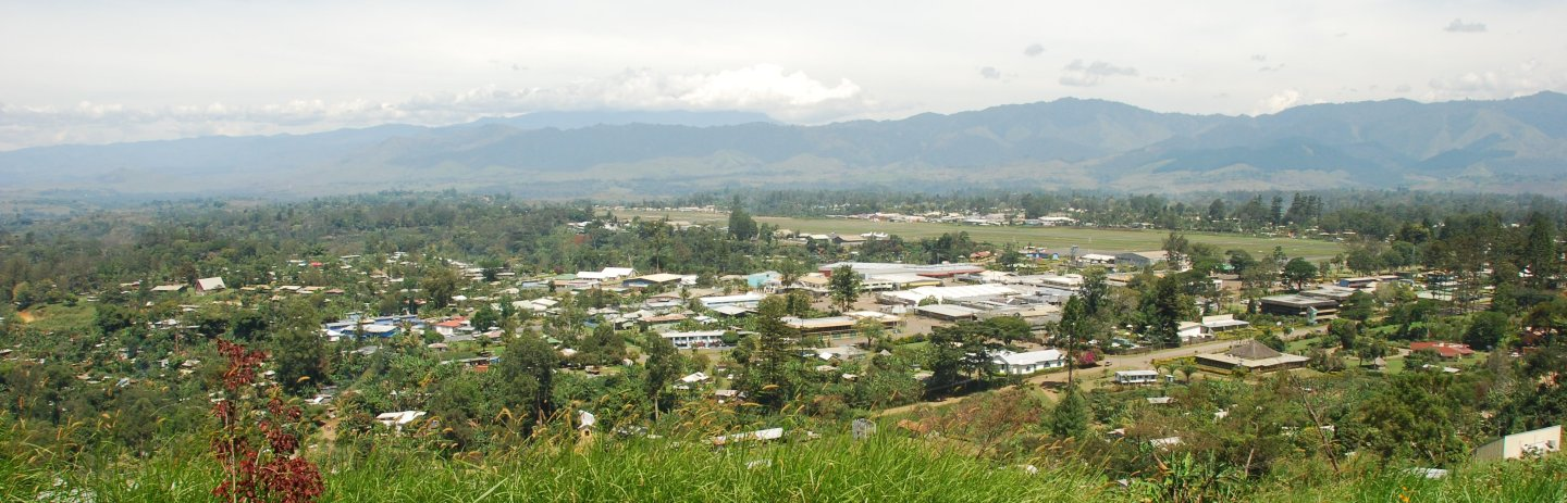 View of the centre of Goroka from Mt. Kiss, looking South-West